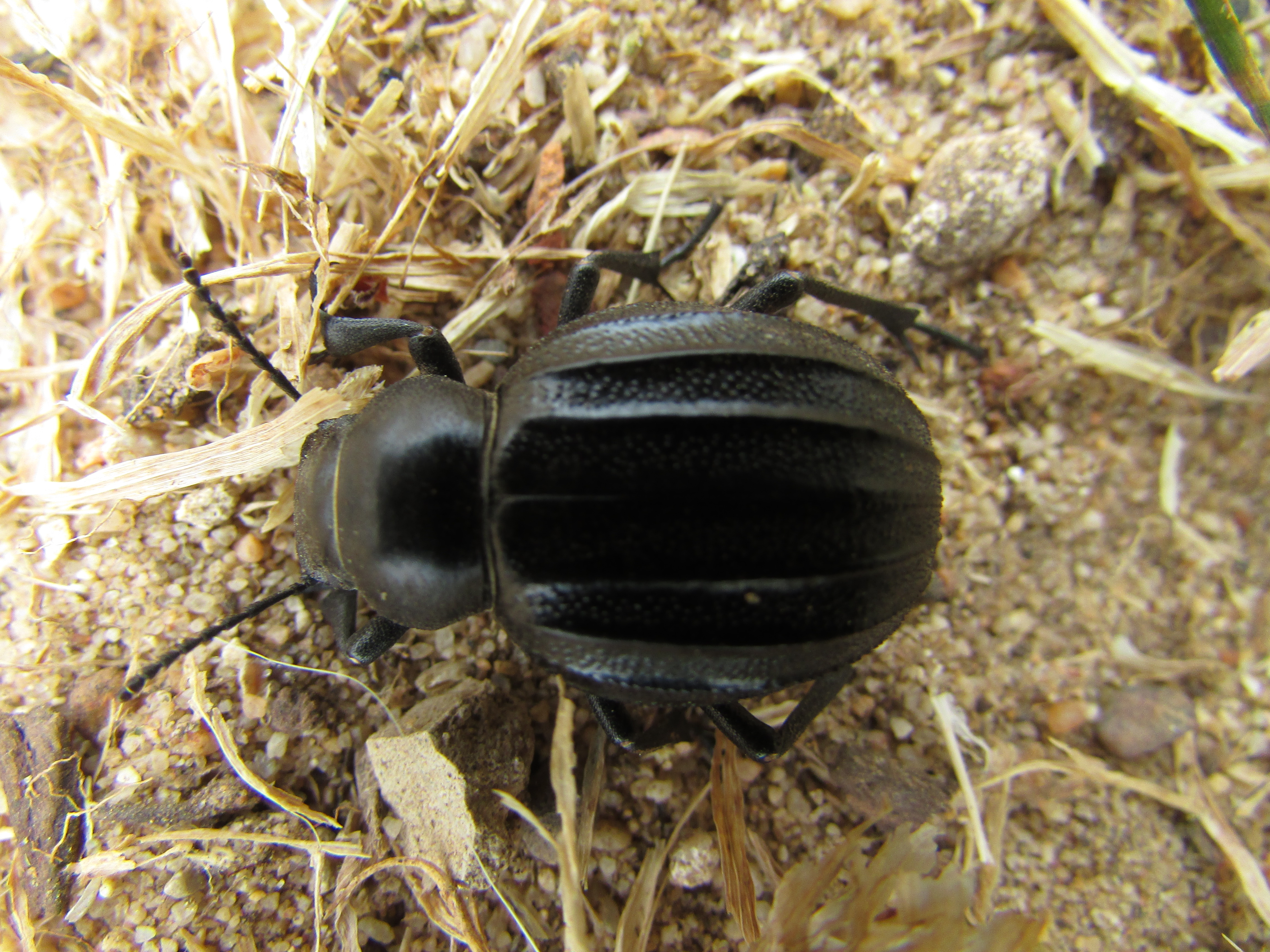 An example of a Darkling beetle (Pimelia costata) found on a sandy footpath within the neighbourhood Santa Eulália which is located in the east of the city of Albufeira, Algarve, Portugal.